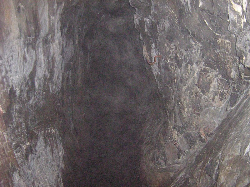 Inside the gold mine of Ädelfors